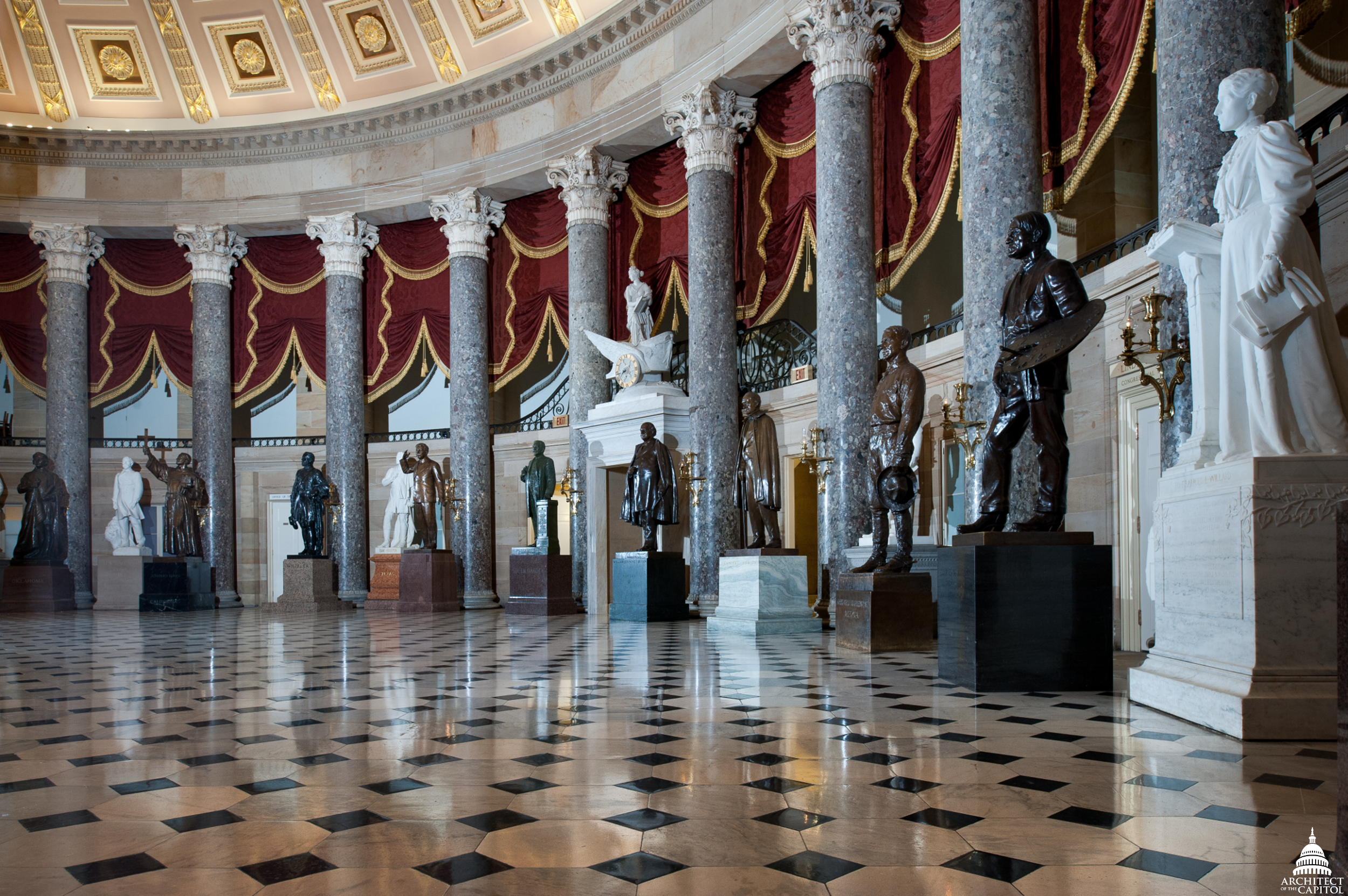 Old House Chamber, designated as National Statuary Hall by Lincoln in July 1864